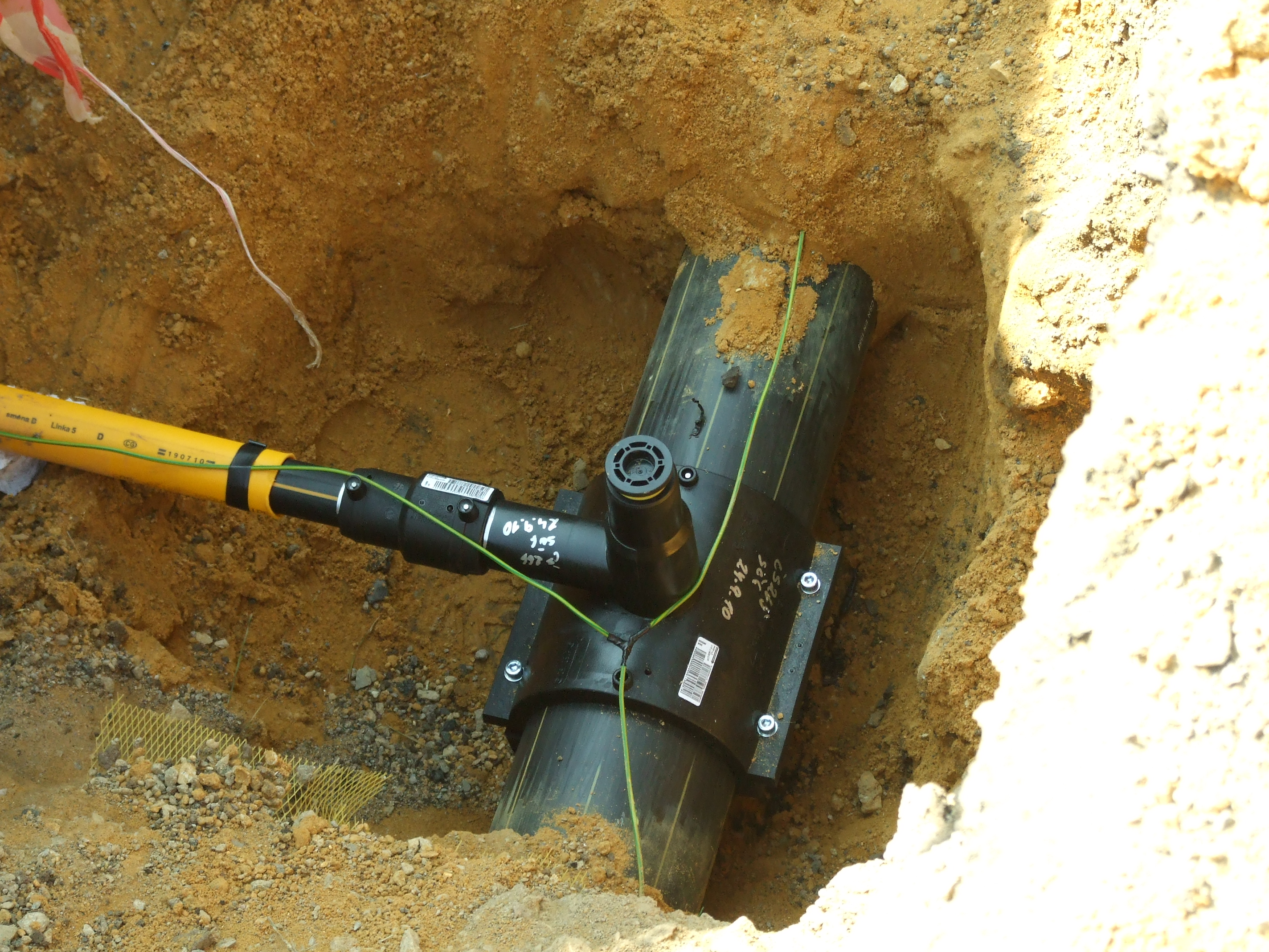 Roadworks at Nerudova street in Beroun - pipe replacement. Central Bohemian Region, CZ